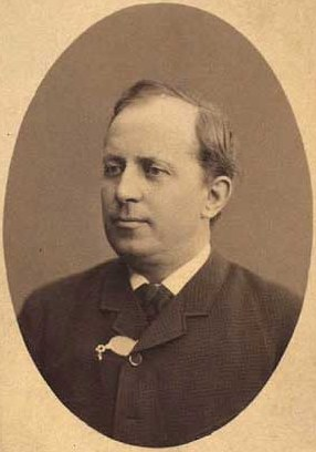 Christopher Emil Julius Høegh-Guldberg (1842-1907), Danish lawyer and politician, MP